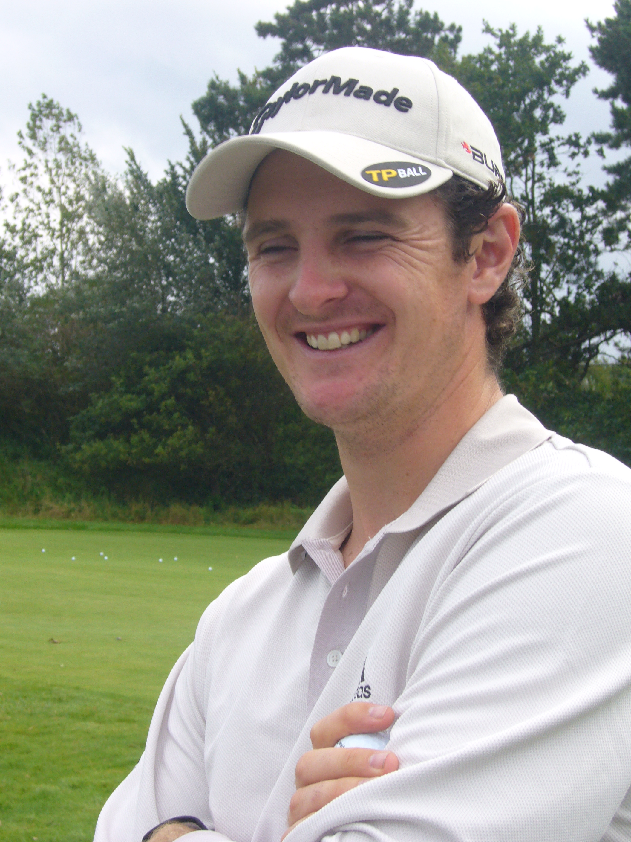 Justin Rose, English golfer